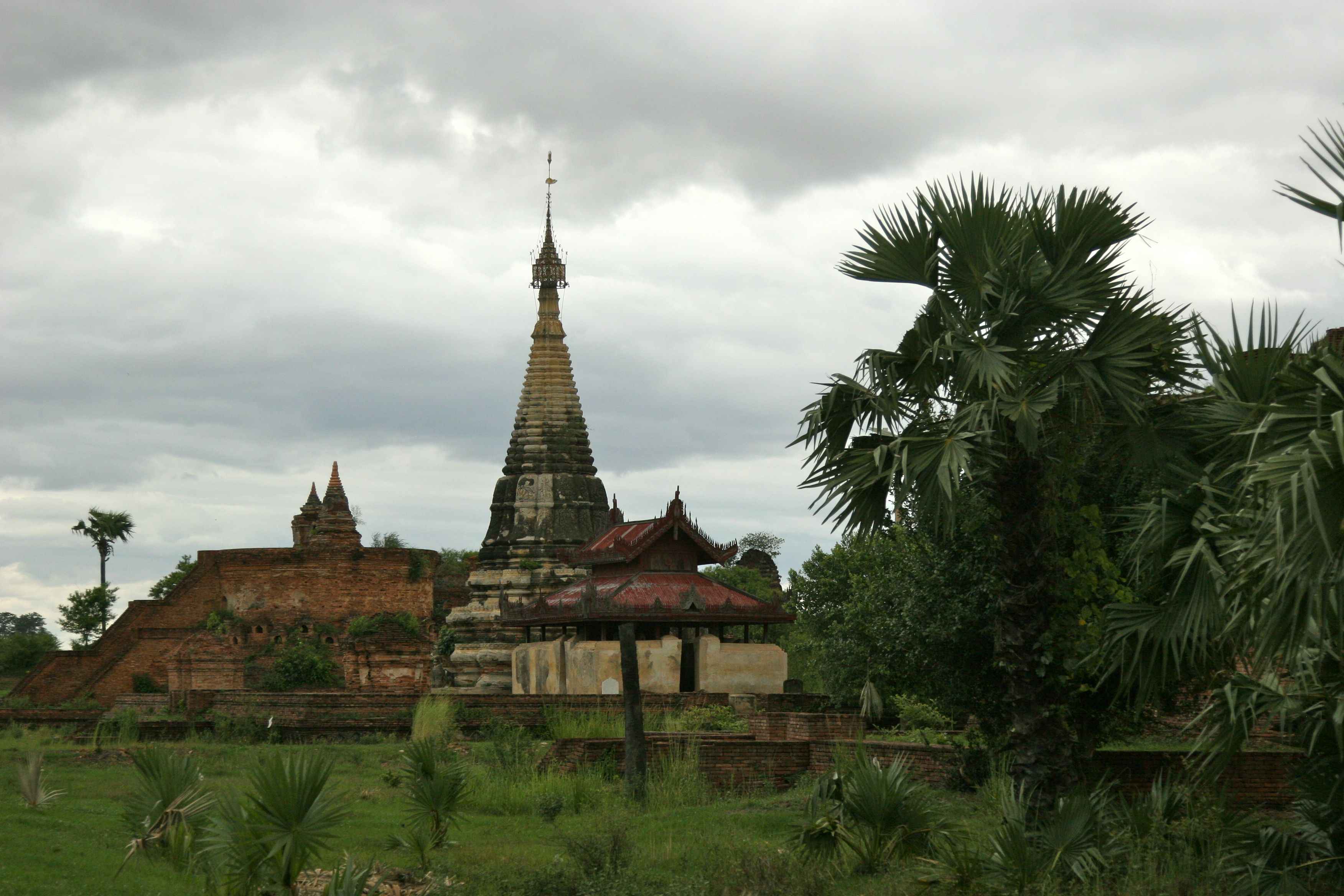 Ruins in Ancient City of Ava (Innwa), Mandalay Division, Burma